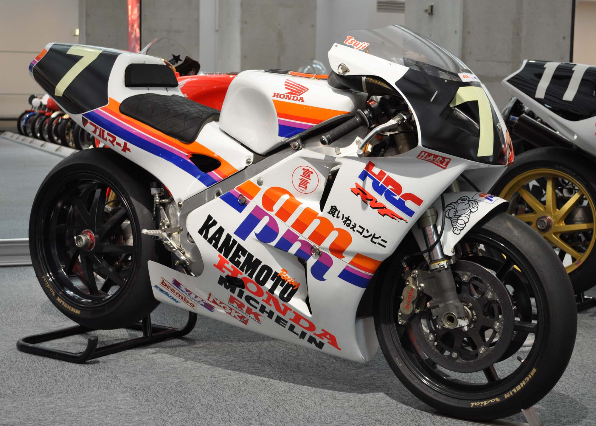 Honda RVF750 (1993 Suzuka 8H, Eddie Lawson / Satoshi Tsujimoto)